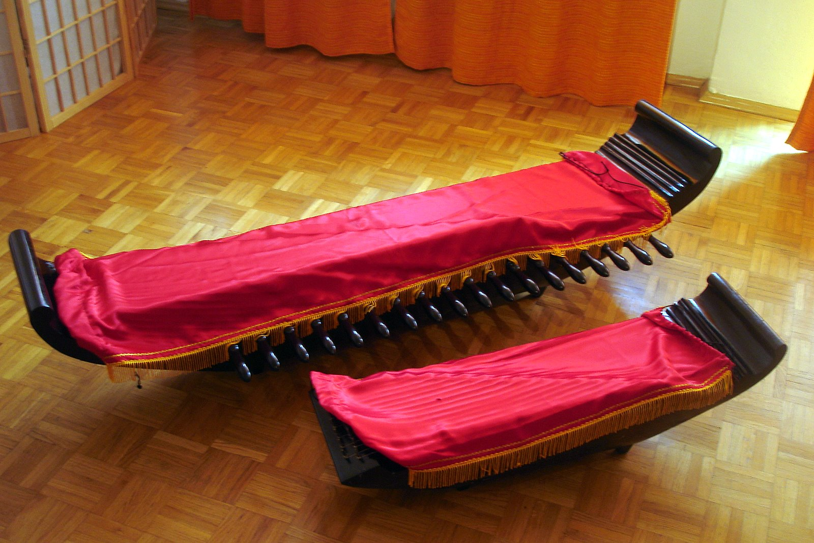 Kacapi indung and kacapi rincik covered with red silk cloth